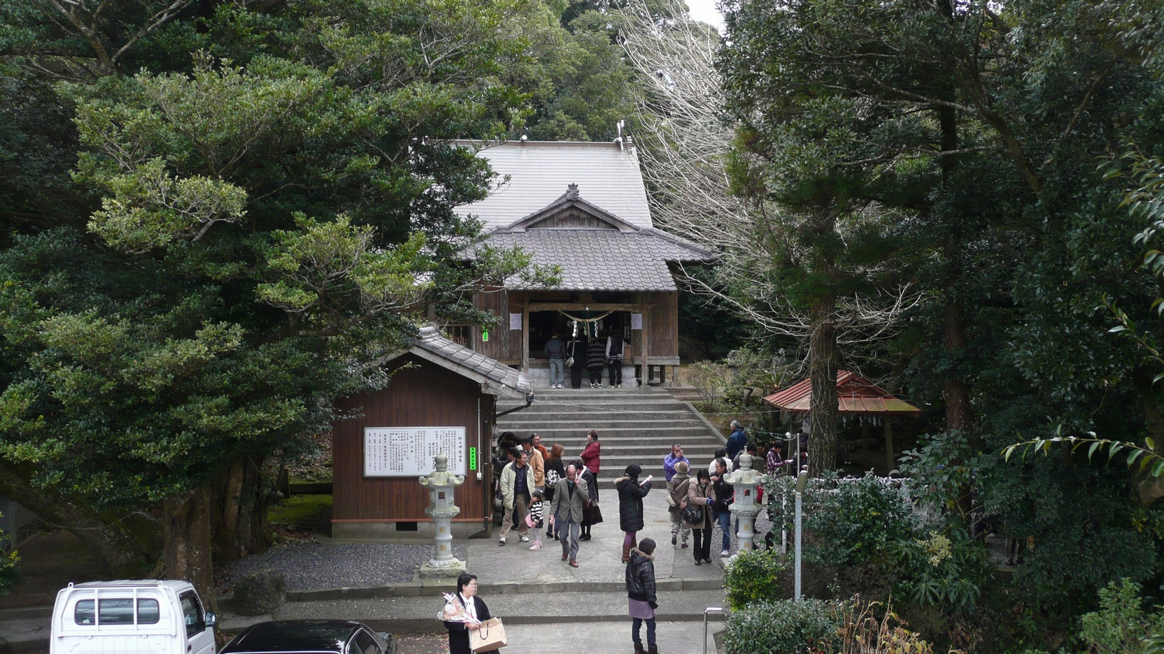 Teruhi Shrine (Osaki Town, Kagoshima, Japan)